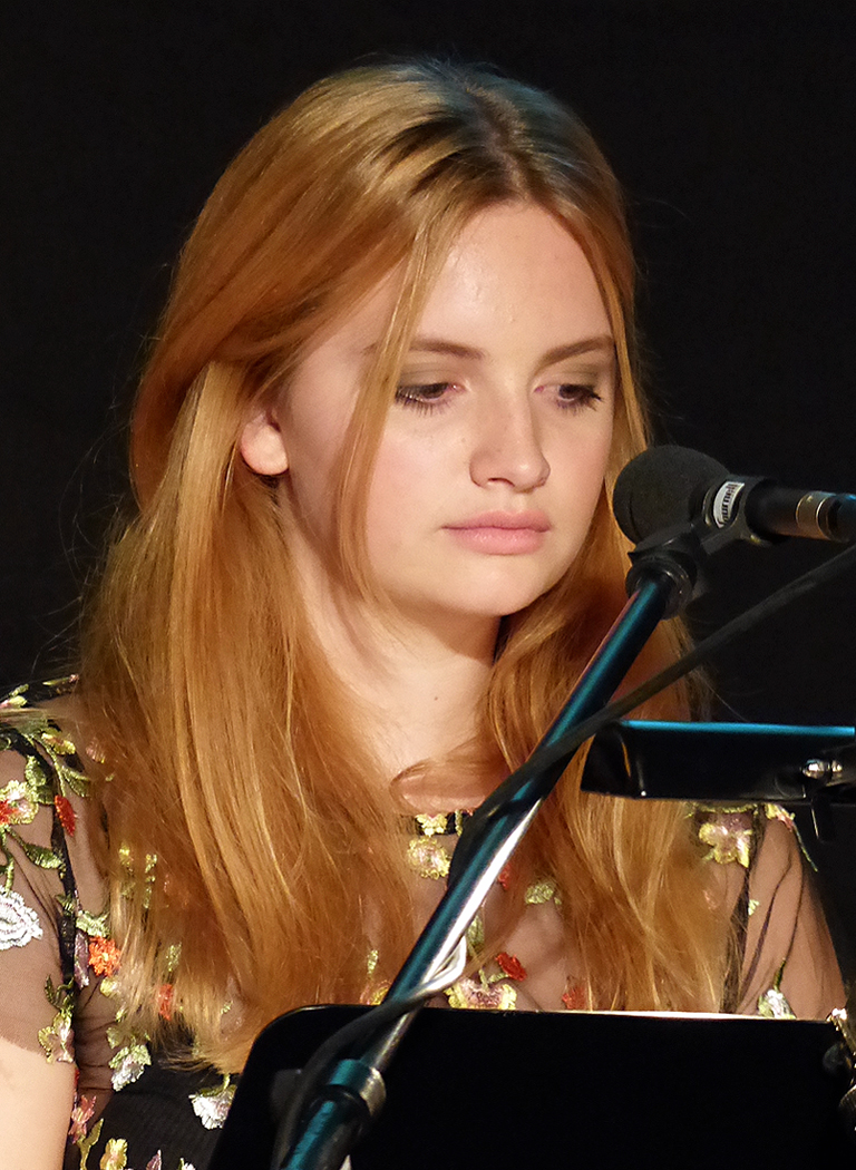 Paulina Rümmelein at the German premiere of the audio play Ghostsitter, Munich 2017.